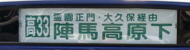 An example of information boards at buses (route number, course place and destination)